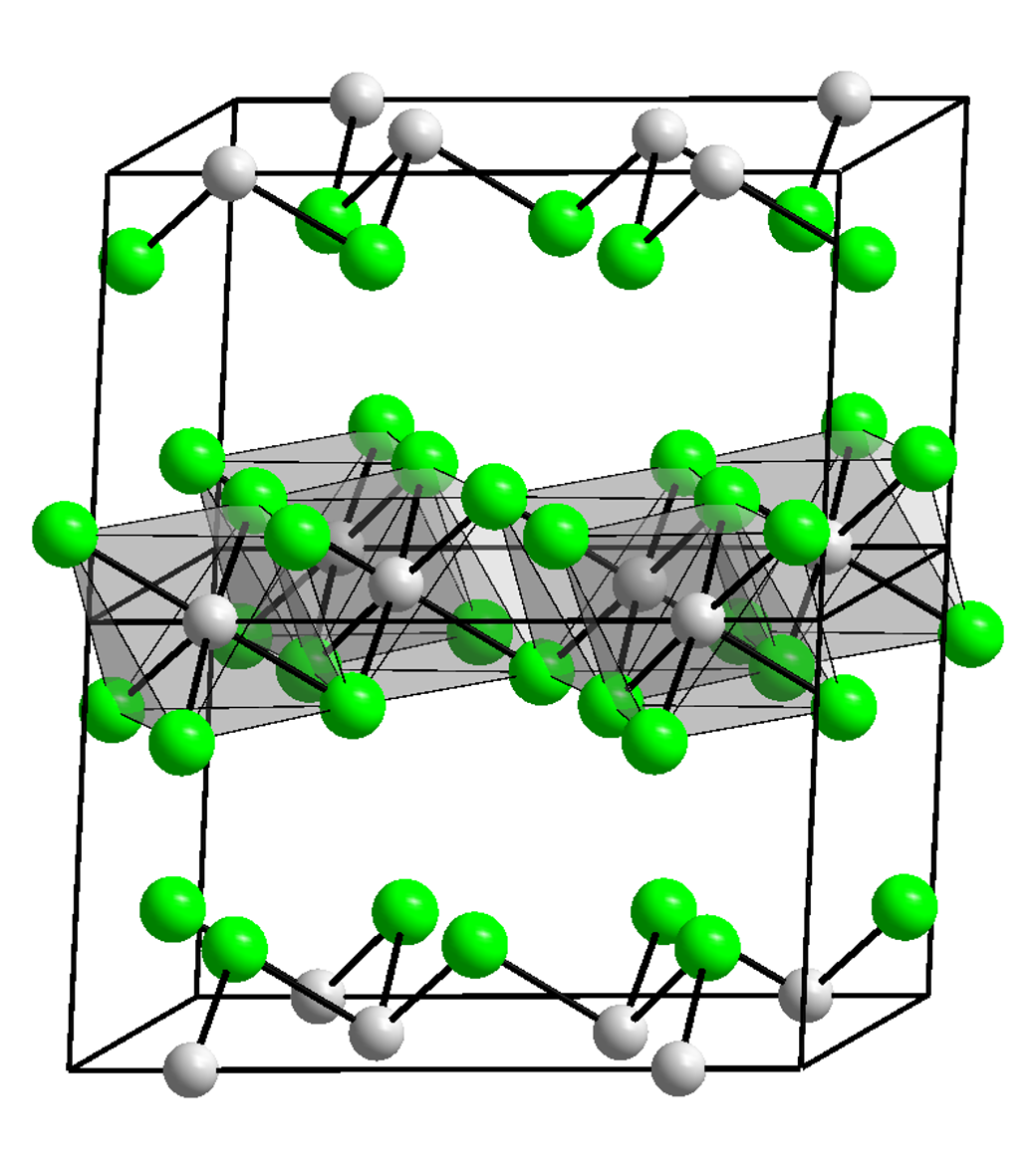 Crystal strcture of Chromium(III) chloride (also representative of the InCl3 structure; see Georg Brauer: Handbuch der Präparativen Anorganischen Chemie. 3., umgearb. Auflage. Band I. Enke, Stuttgart 1975, ISBN 3-432-02328-6, S. 867.)